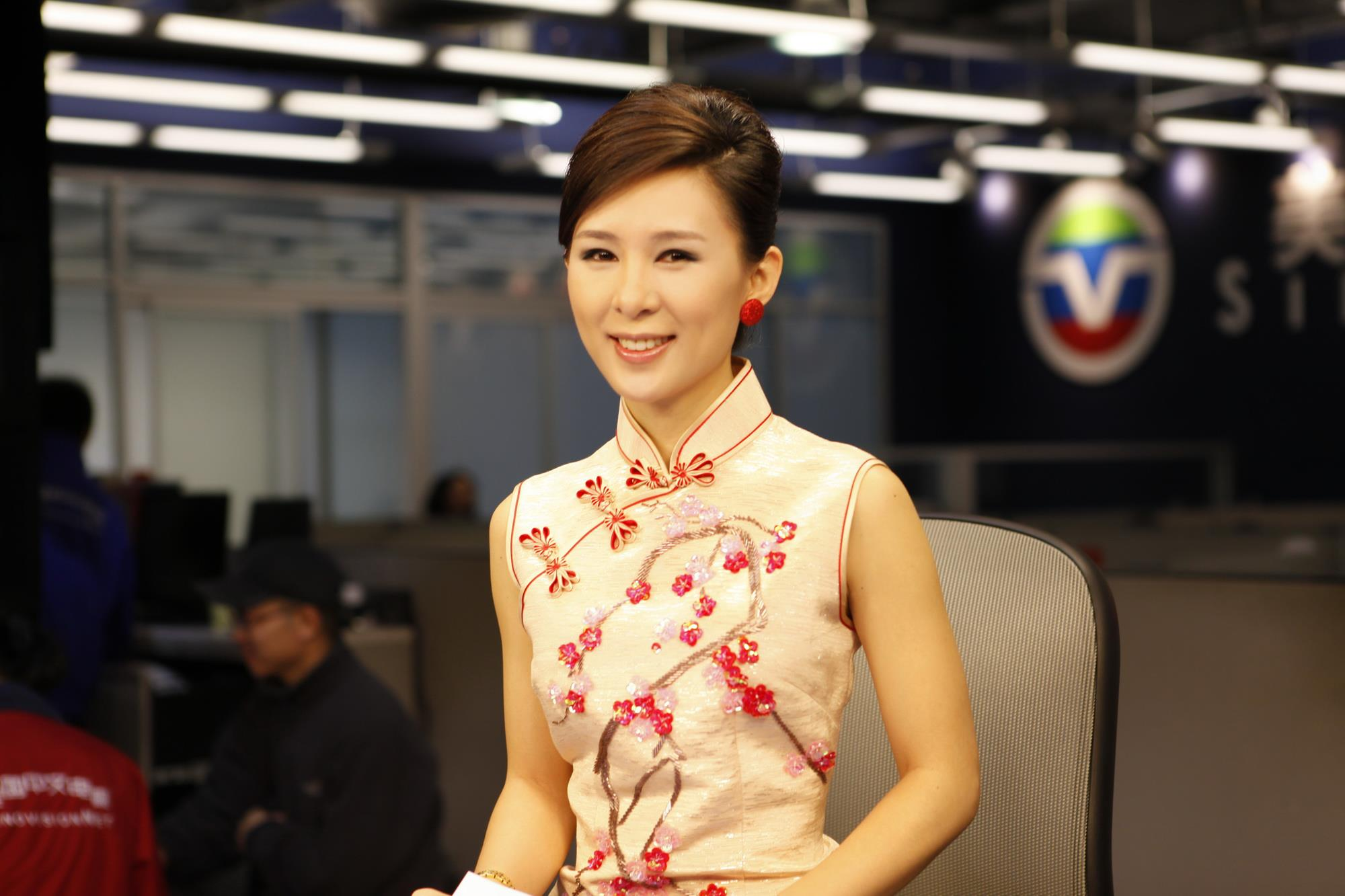 Lin Tan Hosting Chinese New Year's Eve Live Show 2011